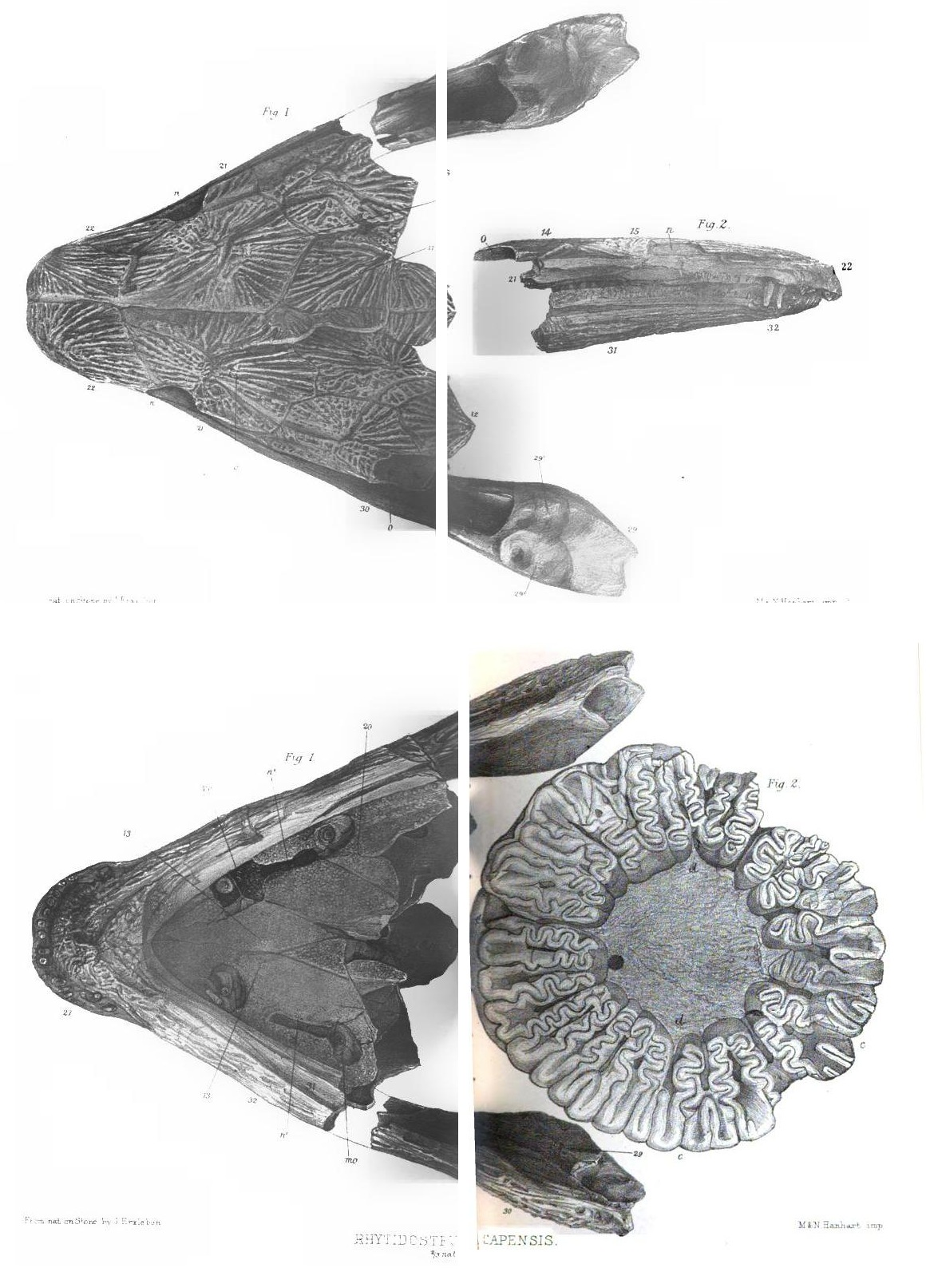 Illustrations of the skull of Rhytidosteus capensis in "On a labyrinthodont amphibian (Rhytidosteus capensis) from the Trias of the Orange Free State, Cape of Good Hope" (Quarterly Journal of the Geological Society, London 40: 333–339) by Richard Owen. Top left: dorsal view of skull. Top right: right lateral view of skull. Bottom left: ventral view of skull. Bottom right: cross section of a palatal tooth.